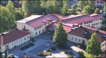 Strömkullegymnasiet